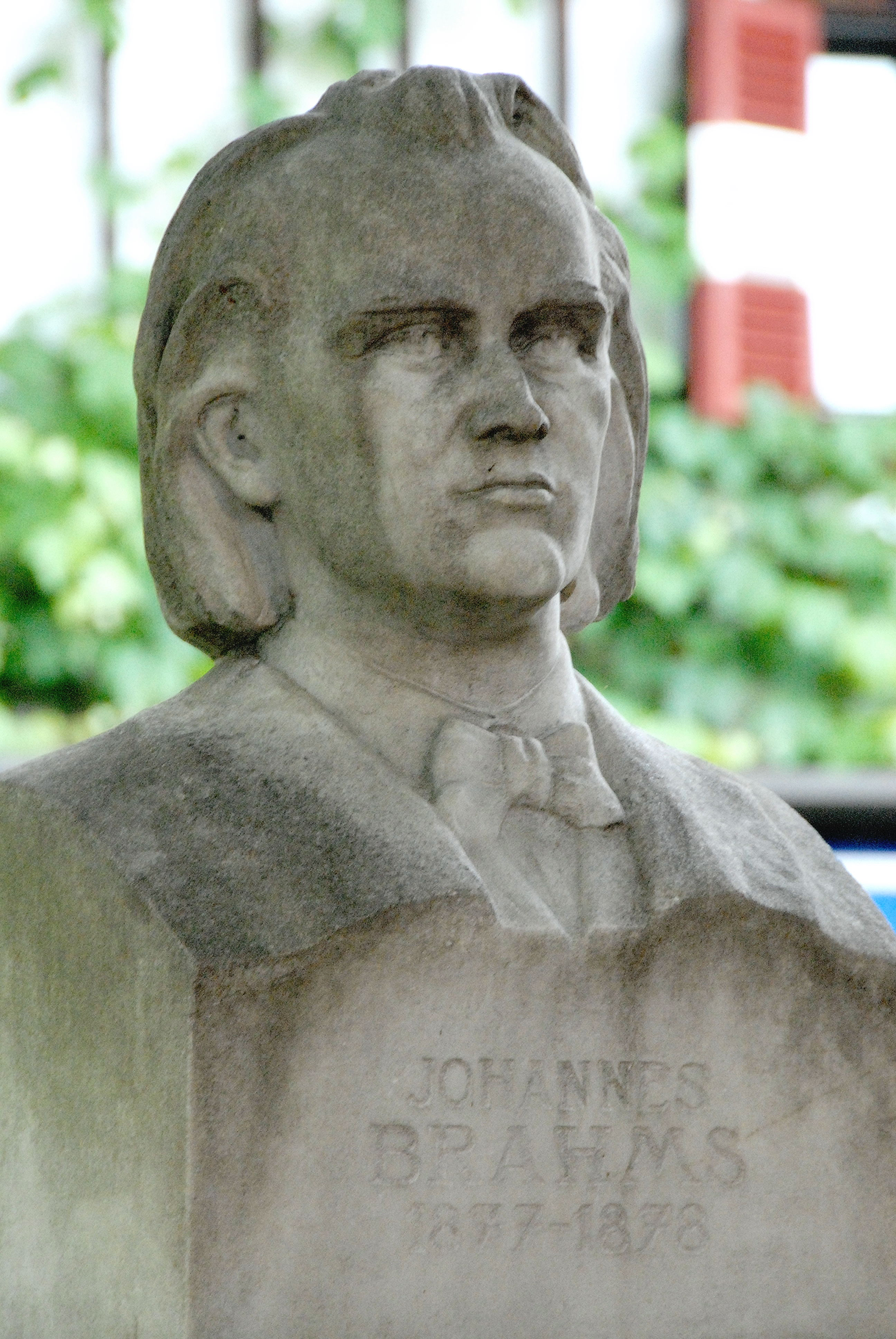 Johannes Brahms` bust in the yard of Castle Leonstain, municipality Poertschach on the Lake Woerth, district Klagenfurt Land, Carinthia, Austria, EU